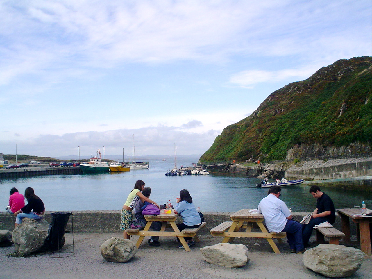 Cape Clear - Harbour View